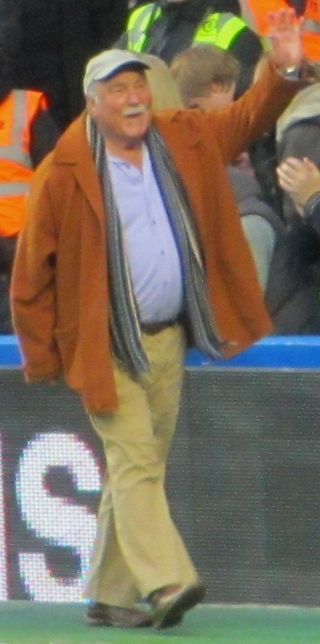 Jimmy Greaves visits Chelsea FC in December 2011.